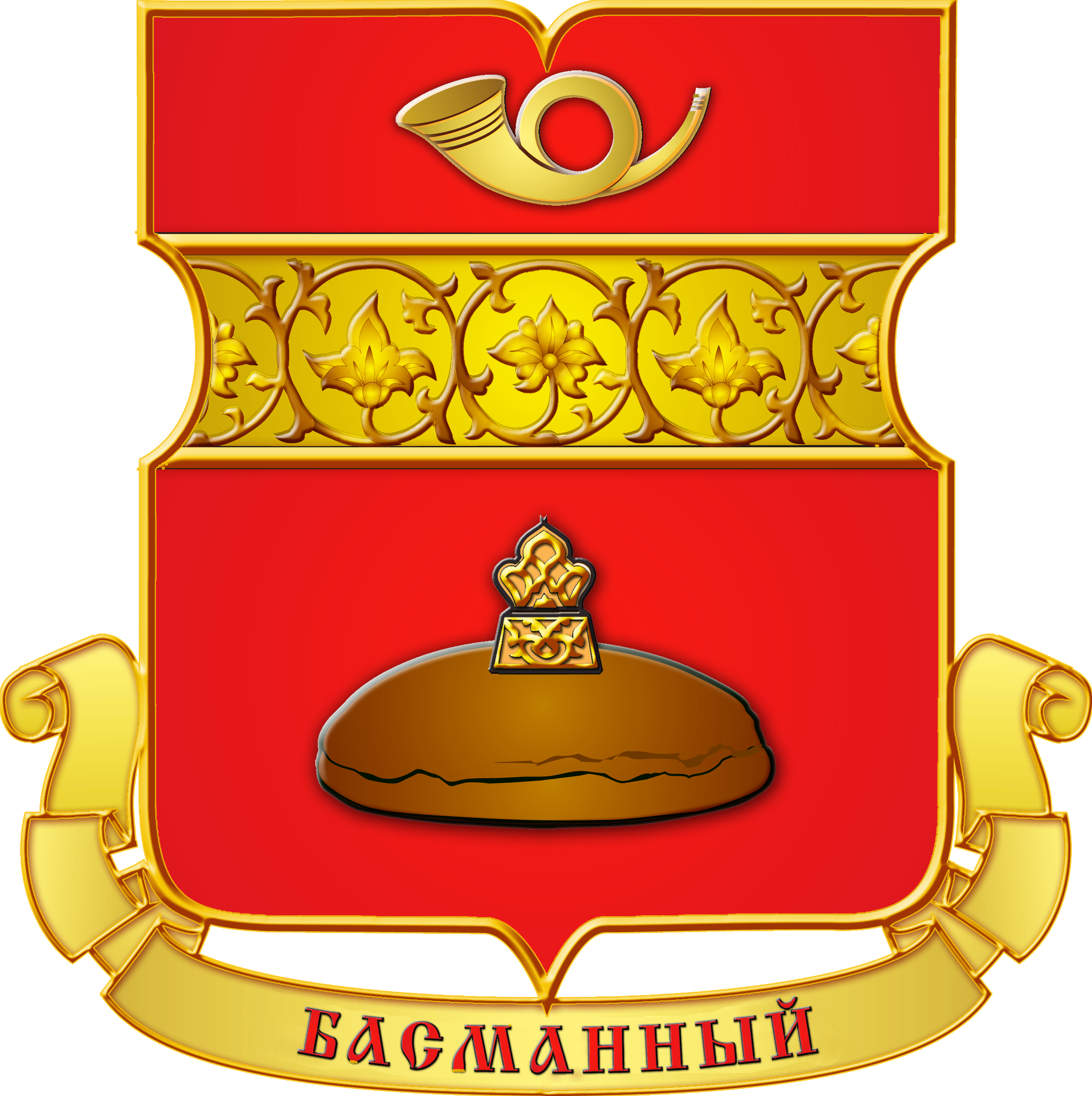 Basmannoe (municipality in Moscow), coat of arms